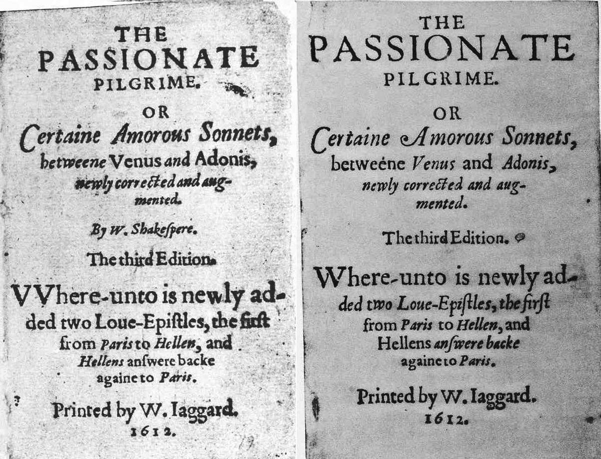 Comparison of the two states of the third edition of The Passionate Pilgrim (1612), published by William Jaggard, composite image.